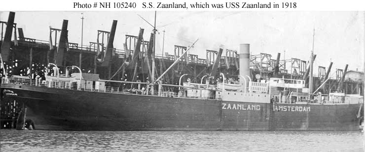 Cargo ship SS Zaanland prior to her 1918 U.S. Navy service as USS Zaanland